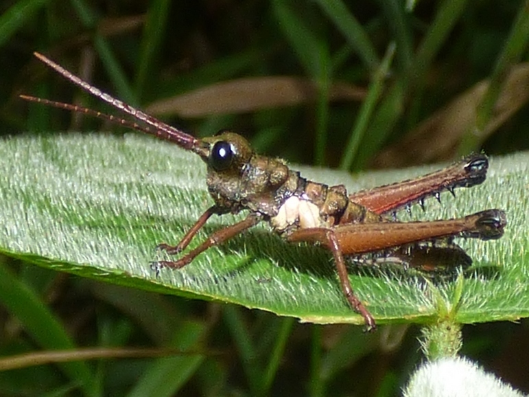 Taken in West Andes cloudforest, Valle del Cauca, Colombia